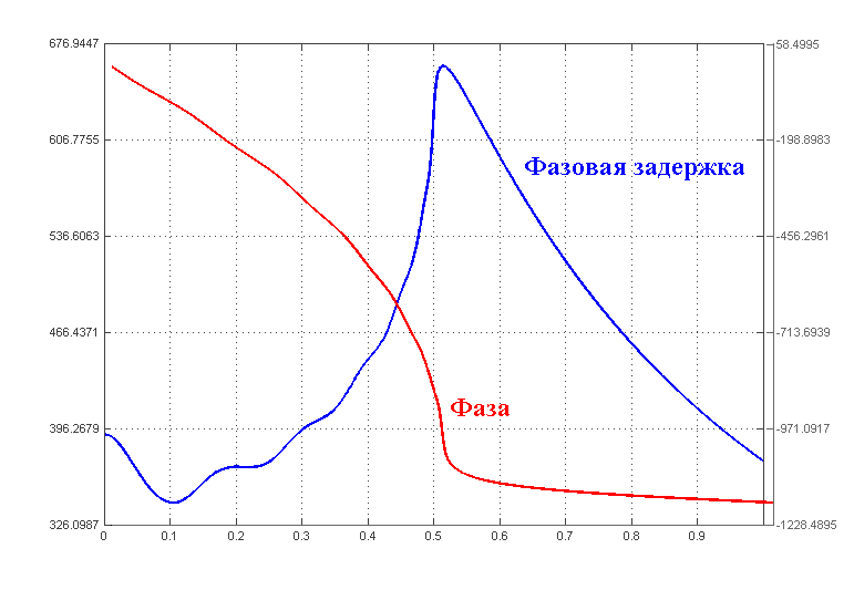 Phase responce of a Chebyshev filter